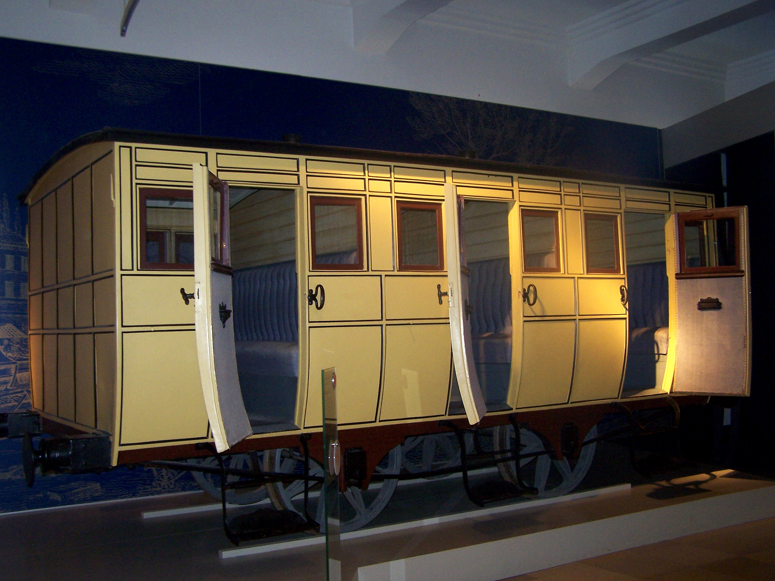 wooden waggon of the first steam locomotive in Germany Adler (original of 1835) in the Transport Museum in Nuremberg